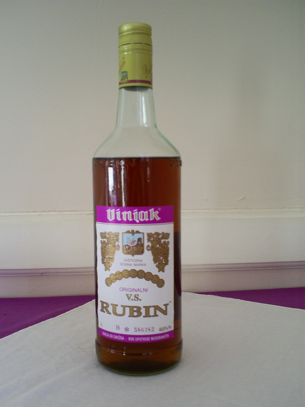 Флаша рубиновог вињака 02.10.2006. Author:Jovan Vuković If you need this picture with biger rezolution ask me there.